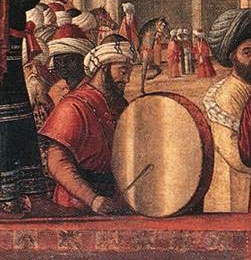 Detail of a drum player.